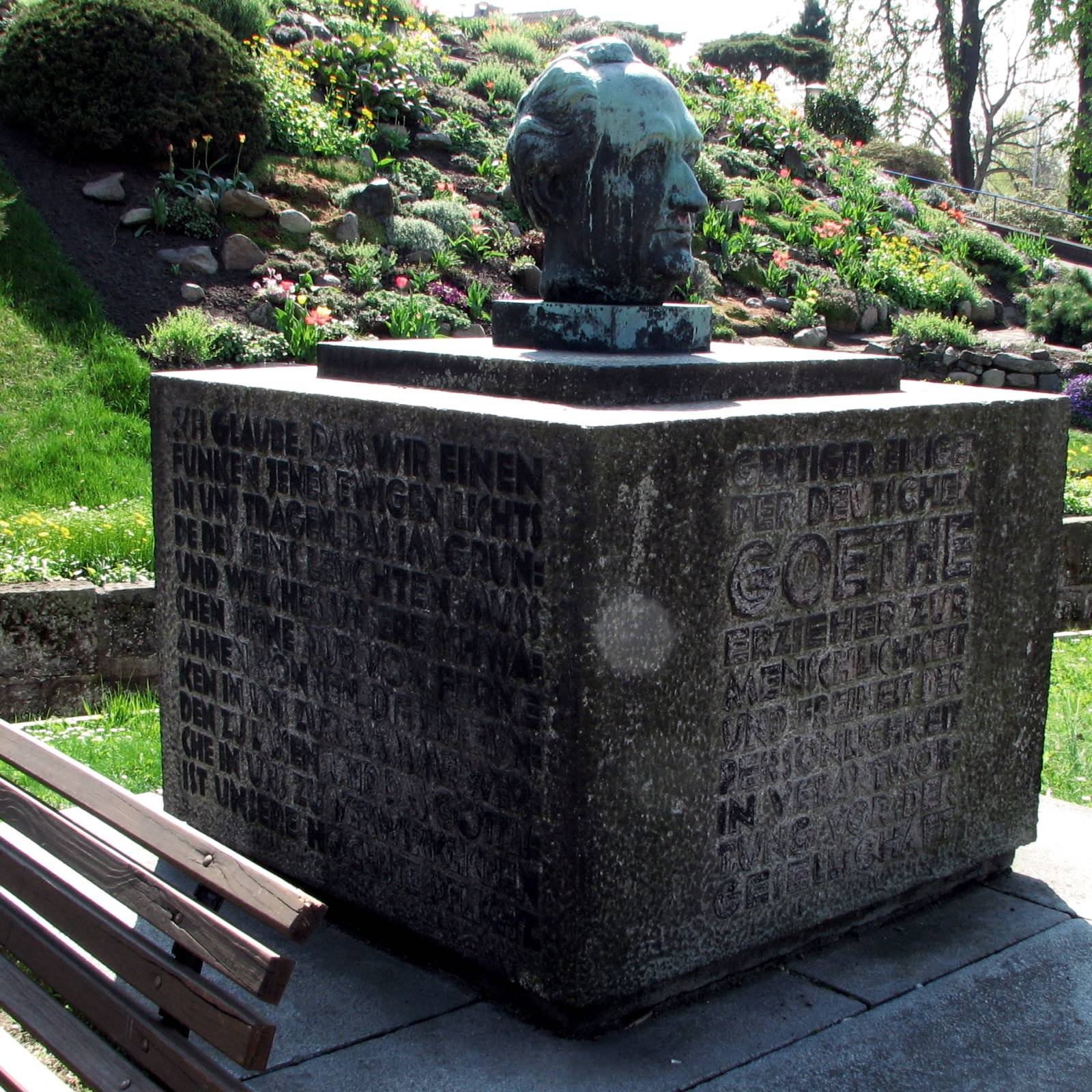 East side and south side of the memorial stone in Coswig(Anhalt) of Johann Wolfgang von Goethe at his 200th birthday in the year 1949, created by the artist Karl Kothe